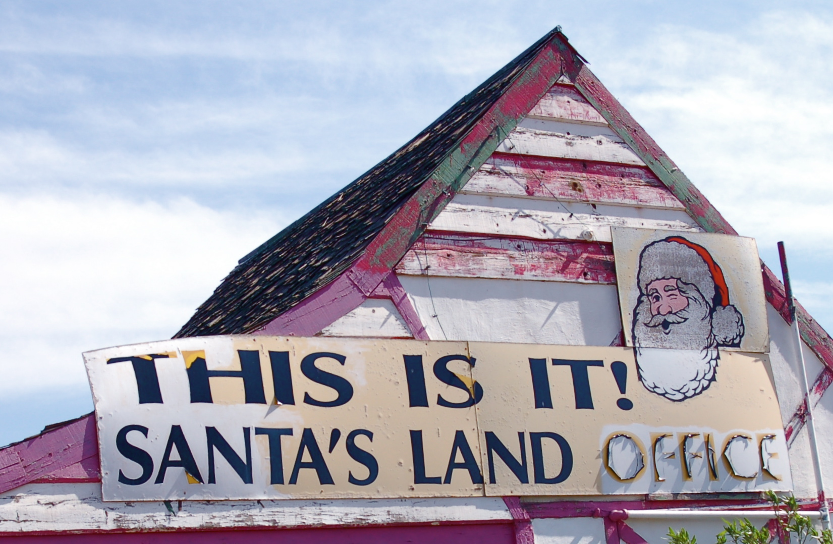 EApril 2008 photo of the land sales office in Santa Claus, Arizona. In describing the photo, photographer Todd Huffman wrote, "This is one of my favourite campy ruins exploration sites. Between the 57th and 58th of US-93 lies Santa's Land Office, built in the 1930's as a tourist attraction and finally giving in 1995. Inside is a menagerie of picked over artifacts, pigeon poop, and nouveau detritus. It's worth going to the back house to check out the elf graffiti flicking you off."